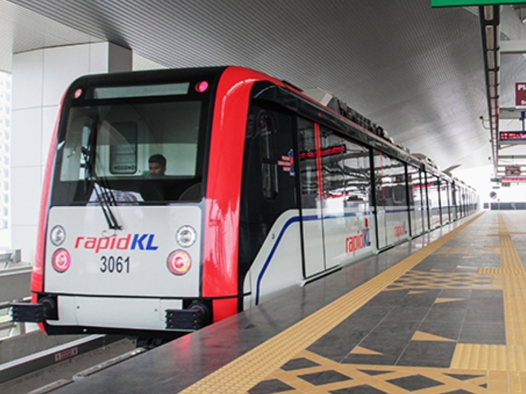 CSR rolling stock for Ampang LRT Extension Project (LEP) leaving to Sri Petaling station